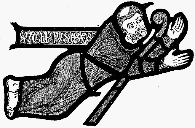 Abbot Suger (c. 1081 – January 13, 1151), French ecclesiastic, statesman and historian